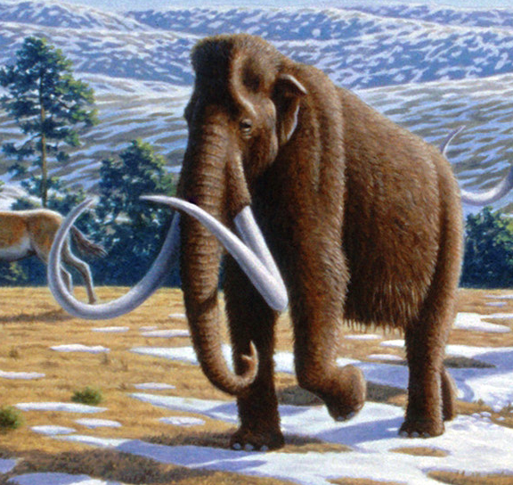 Crop of file in filename